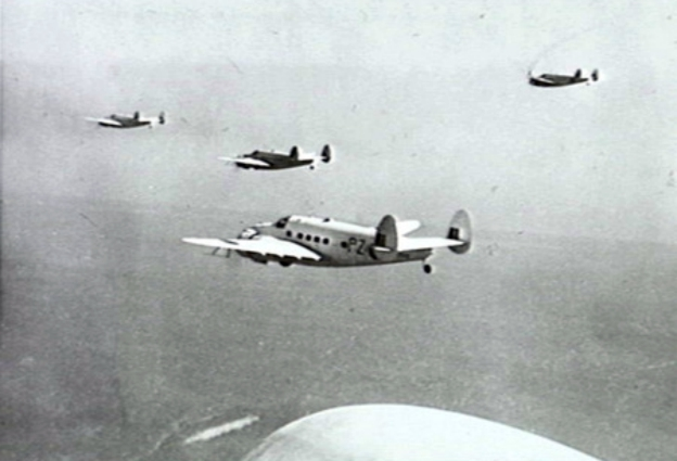 Lockheed Hudson aircraft from No. 53 Squadron, Royal Air Force Coastal Command, on a flight from Florida to Virginia (USA). In July 1942 the squadron was transferred to the Eastern Seaboard of the USA, from there it moved to Trinidad. It returned to Cornwall in November 1942.